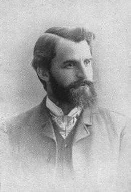 Image of American writer Hamlin Garland. From The Writer: A Monthly Magazine to Interest and Help All Literary Workers, vol. v. no. 10, October 1891.